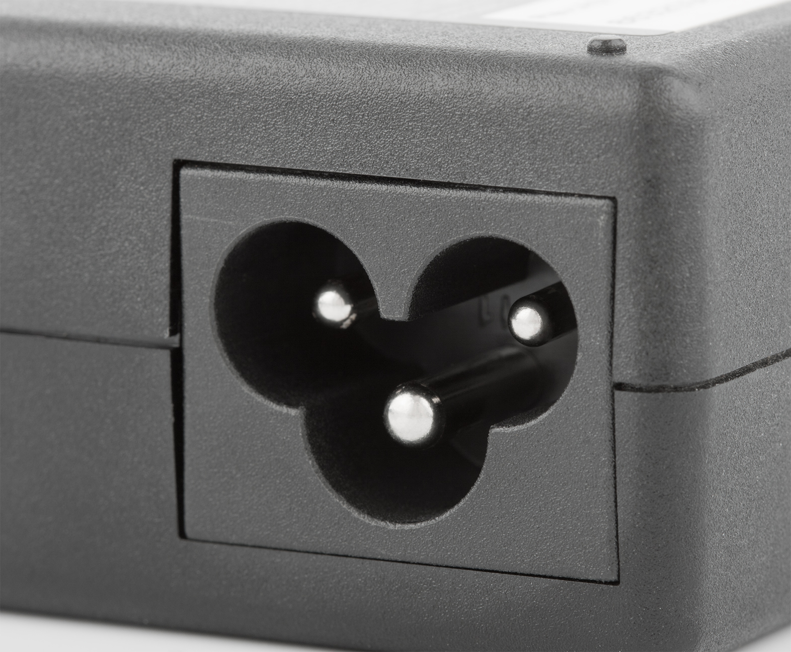 IEC 60320 C6 connector